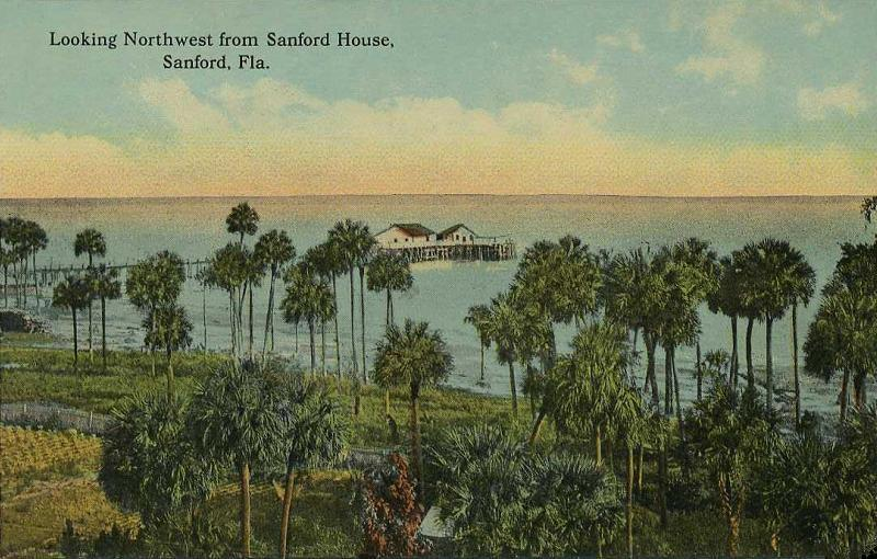 Looking northwest from The Sanford House, Sanford, Florida